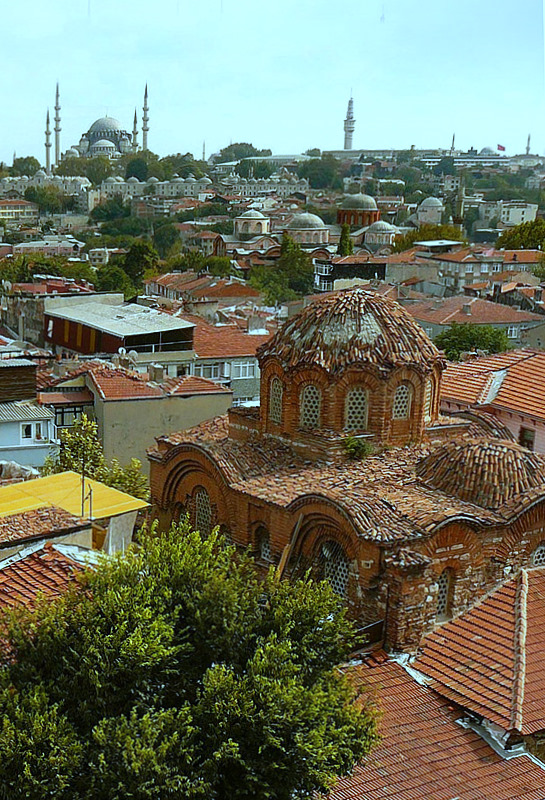 Αn aerial view showing the location of Εski Ιmaret Mosque, Istanbul.